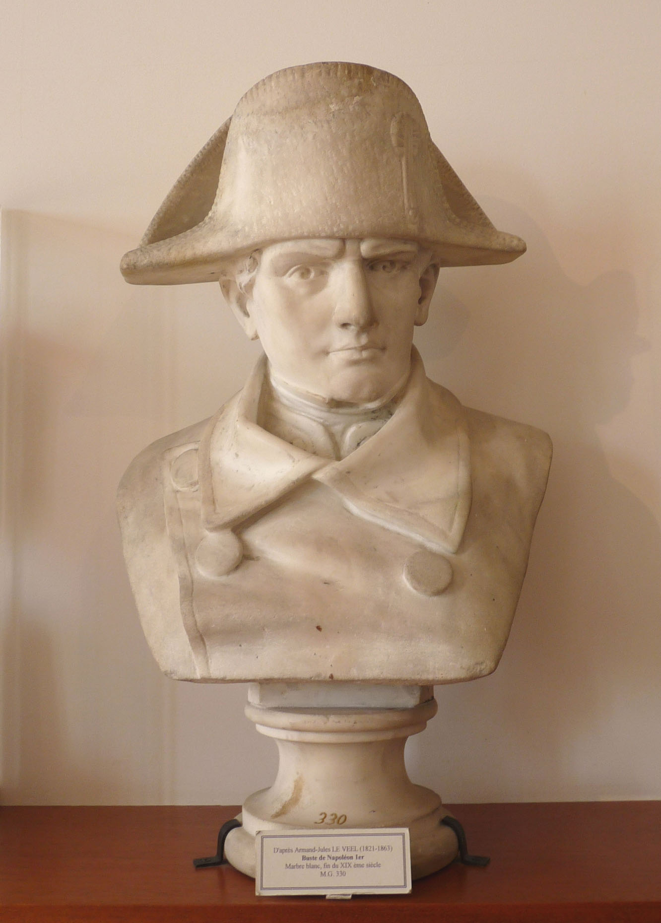 Napoleon by sculptor Armand-Jules Le Veel (Musée napoléonien (Ile d'Aix, Charente-Maritime)